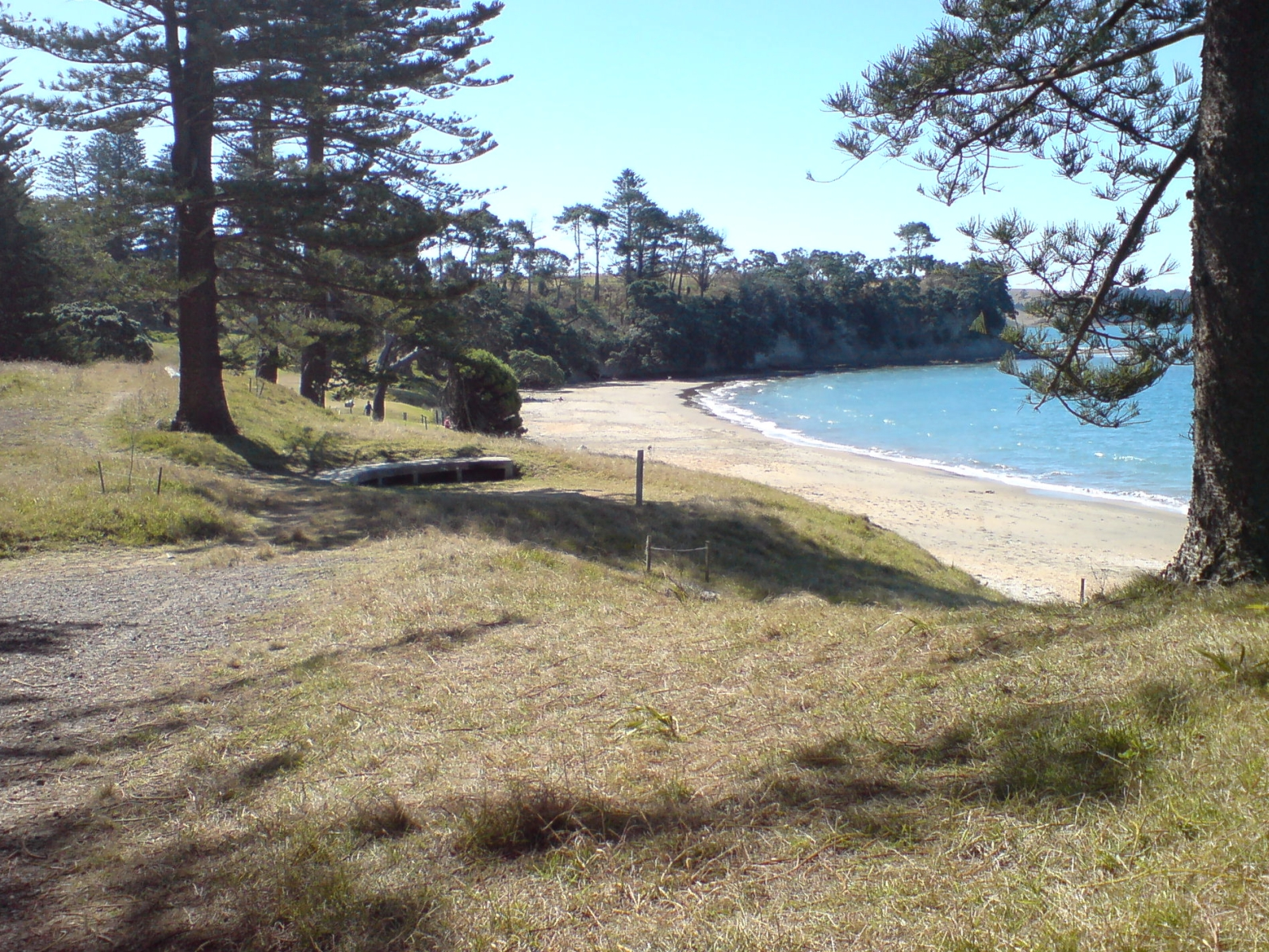 One of the beaches well-known beaches on Motuihe Island, Hauraki Gulf, New Zealand. Looking westwards over the western section of the northern beach. Amusingly, the next beach is only 20 m away on the left, on the southern side of a narrow, tree-lined neck of the island.